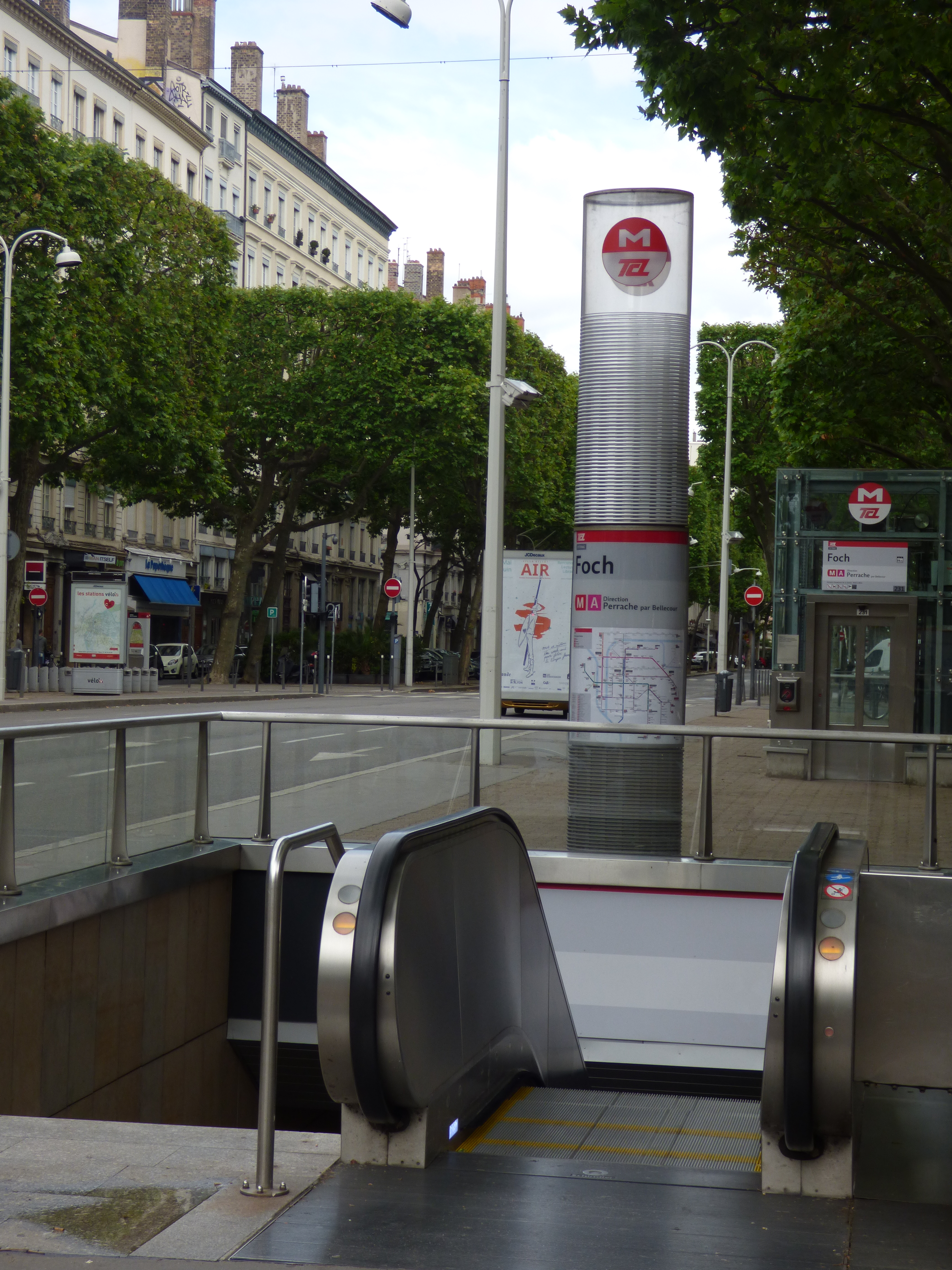 The long walk back to the hotel from the Parc de la Tête d'Or via Avenue Maréchal Foch. Cours Franklin Roosevelt Foch Lyon Metro The Lyon Metro (French: Métro de Lyon) is the metro system of Lyon, France. It first opened in 1978 (although the metro's current Line C opened, independently, earlier, in 1974). The Lyon Metro currently consists of four lines, serving 40 stations (44 when counting transfer stations twice), and comprising 32.0 kilometres (19.9 mi) of route. It is part of the Transports en Commun Lyonnais (TCL) system of public transport, and is supported by Lyon's network of tramways. Unlike all other French metro systems, but like the SNCF and RER, Lyon Metro trains run on the left. This is the result of an unrealised project to run the metro into the suburbs on existing railway lines. The loading gauge for lines A, B, and D is 2.90 m (9 ft 6.2 in), more generous than the average for metros in Europe. The loading gauge for line C is 2.78 m (9 ft 1.4 in). The Lyon Metro owes its inspiration to the Montreal Metro which was built a few years prior, and has similar (wider) rubber-wheel cars and station design. The metro had 740,000 daily weekday boardings in 2011. Lyon Metro Line A. Direction Perrache per Bellecour.